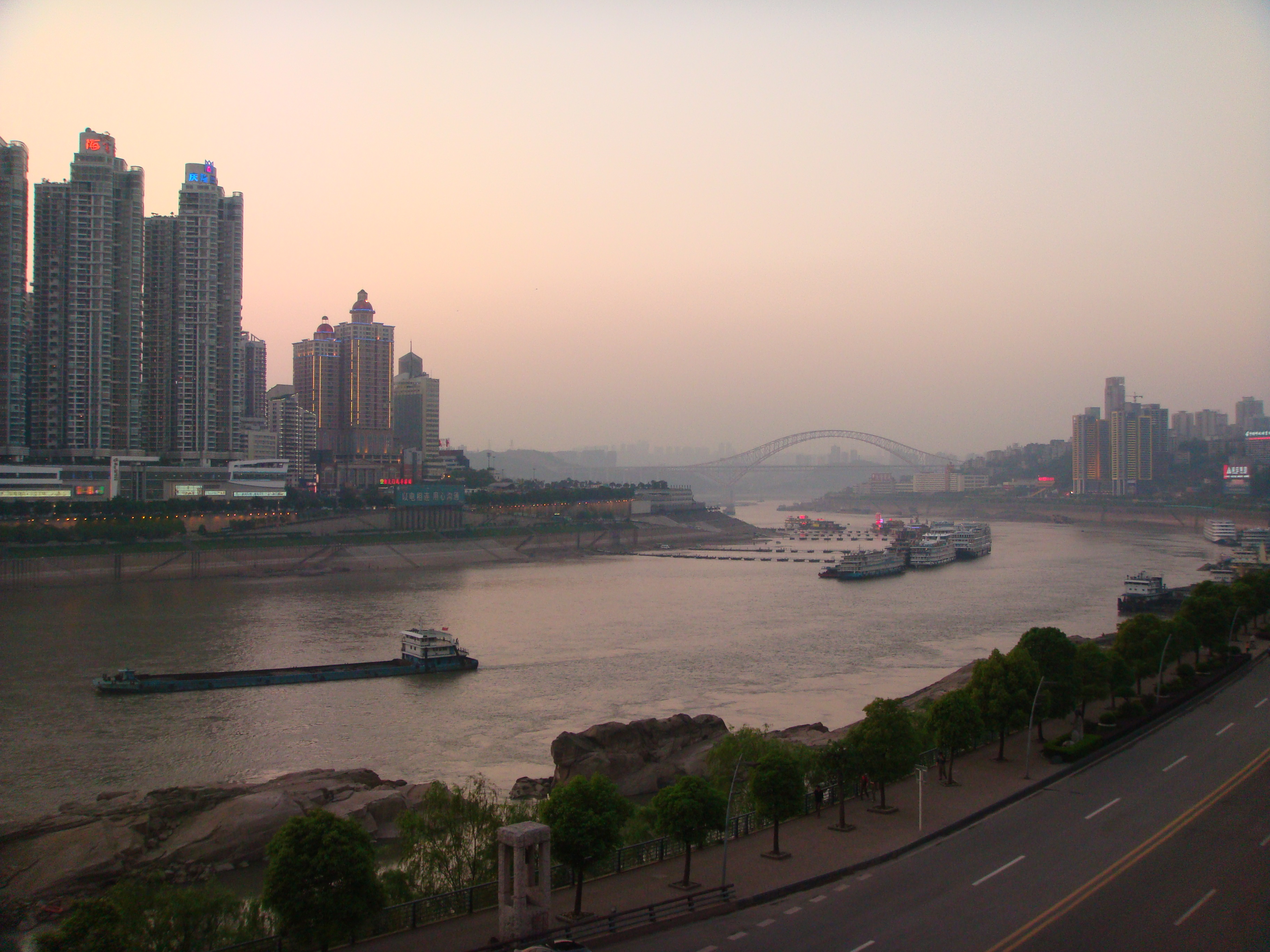 A dusk view of Chongqing Downtown.